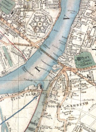 Detail from Cross's New Plan of London (3rd ed, 1847), showing Vauxhall Bridge, Nine Elms and South Lambeth